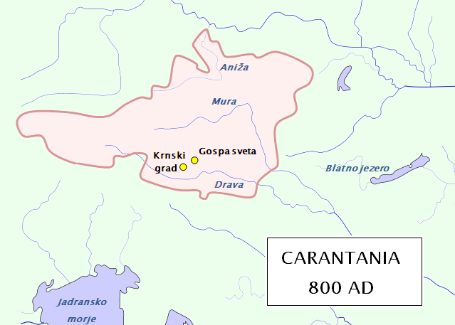 Carantania (Karantanija) at 800 AD; for approximate borders: look at Inzko Valentin (1978): Zgodovina Slovencev do leta 1918. Mohorjeva založba, Celovec. Str. 21; Čepič Zdenko et al. (1979): Zgodovina Slovencev. Cankarjeva založba, Ljubljana 1979, str. 127 in 133; Peršič Janez et al. (1983): Stare kulture. Mladinska knjiga, Ljubljana, str. 144.